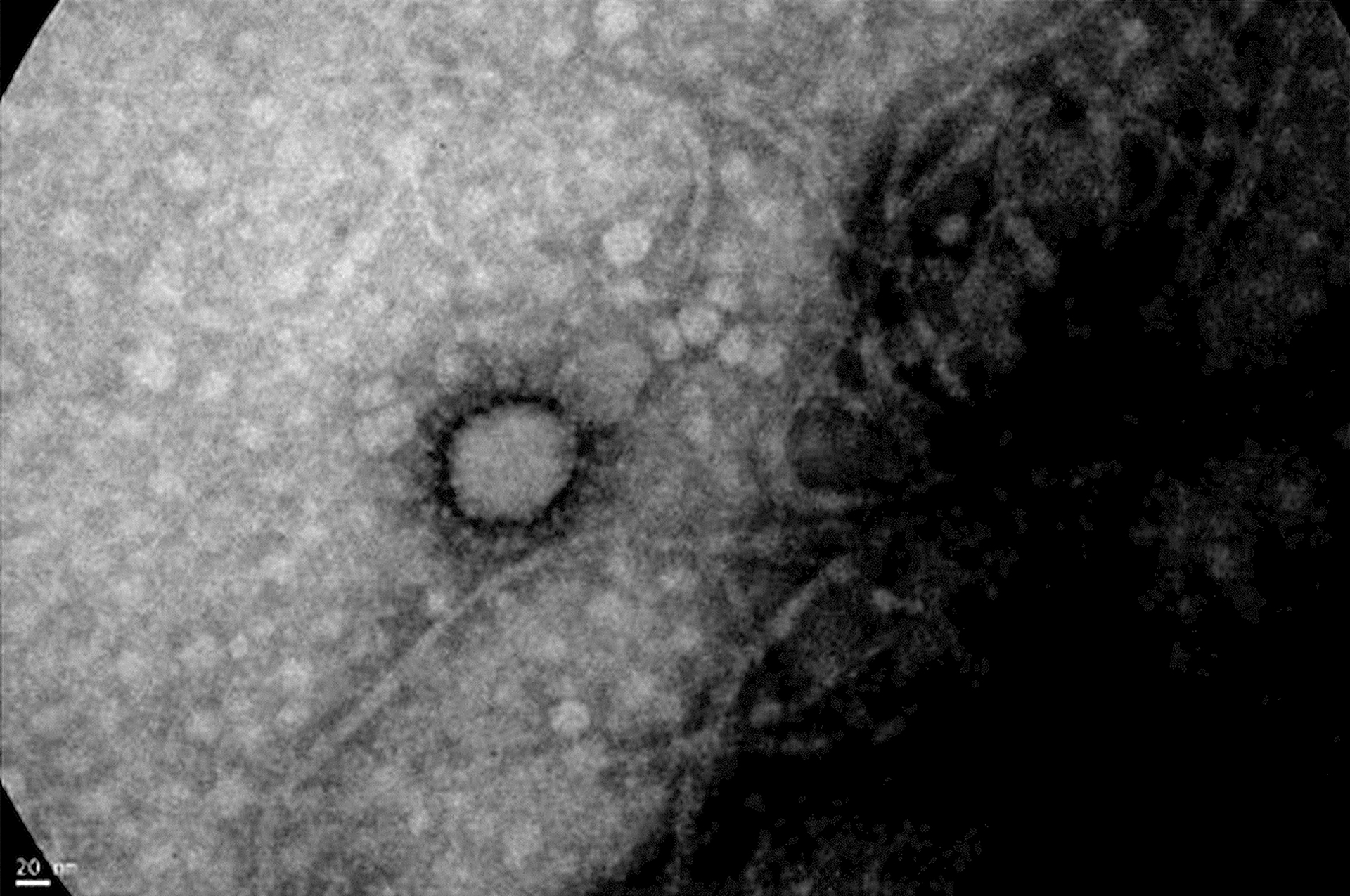 Image of SARS-CoV-2 taken by the Instituto de Biología Celular y Neurociencias “Profesor E de Robertis”, UBA-CONICET.